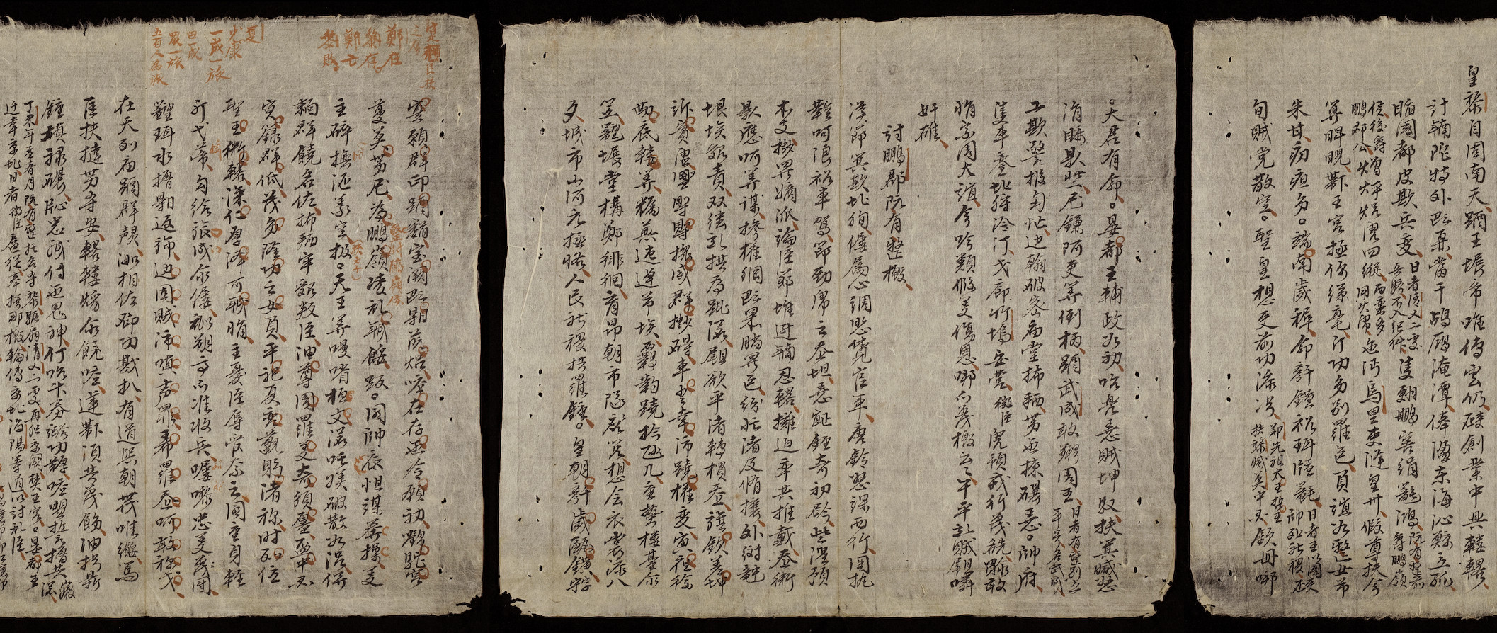 Written by Lê Huy Dao in 1787. Included in Lữ Trung Ngâm collection (1803)